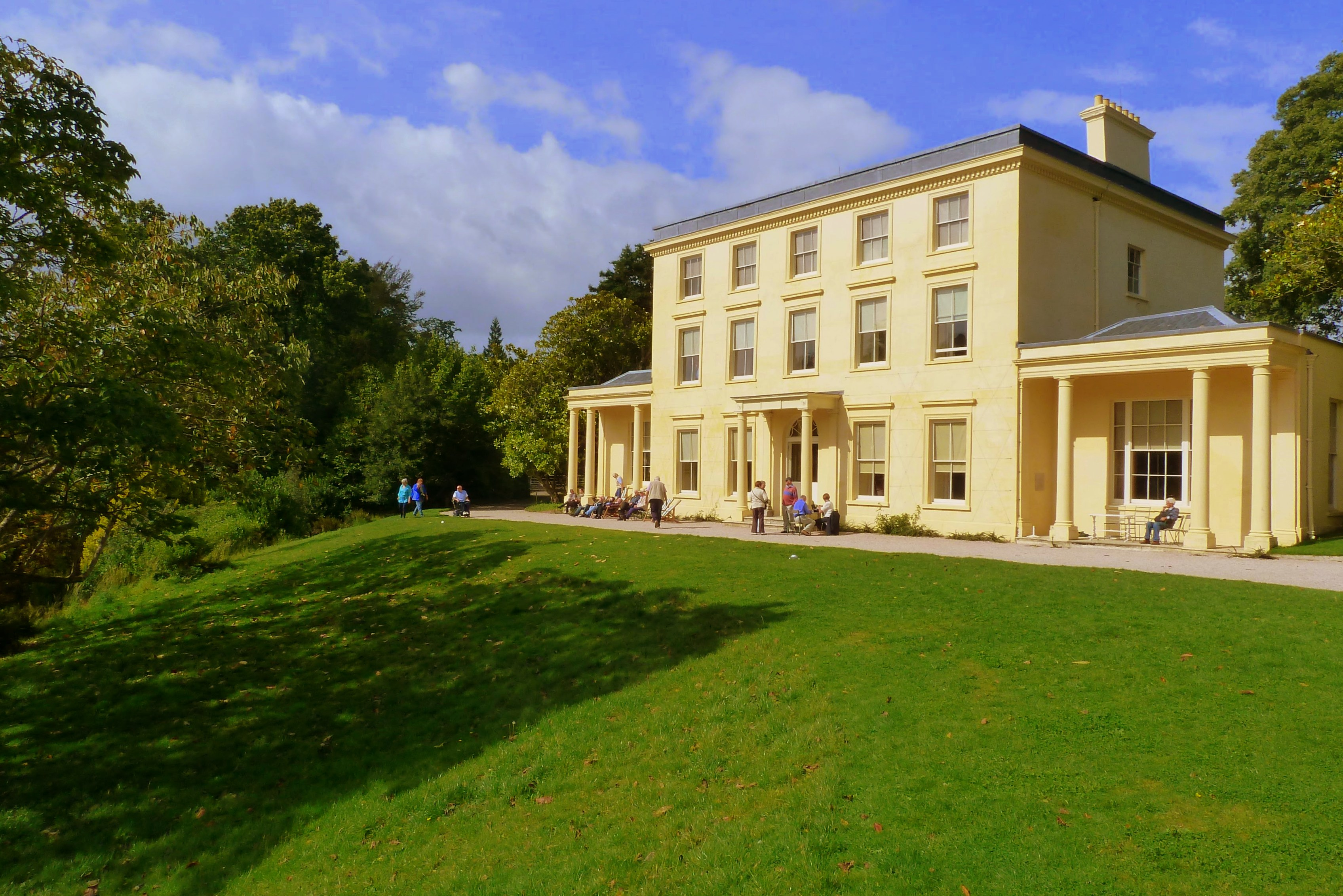 Greenway - Agatha Christie's holiday home